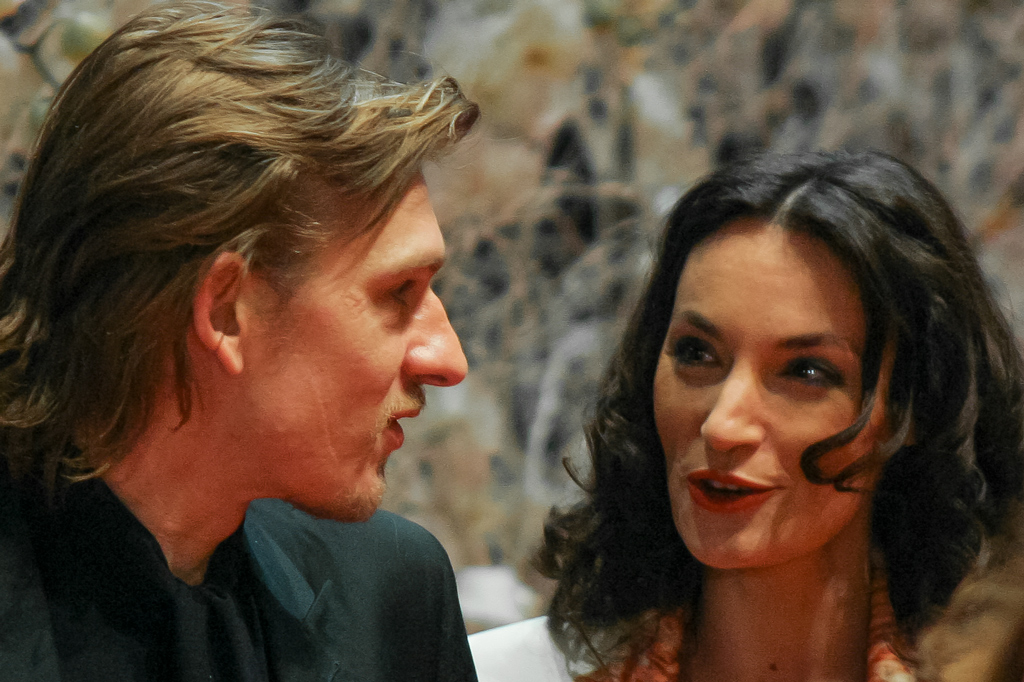 Guillaume Depardieu and Jeanne Balibar at the opening night of The Duchess of Langeais (Ne touchez pas la hache) at the Berlin International Film Festival 2007